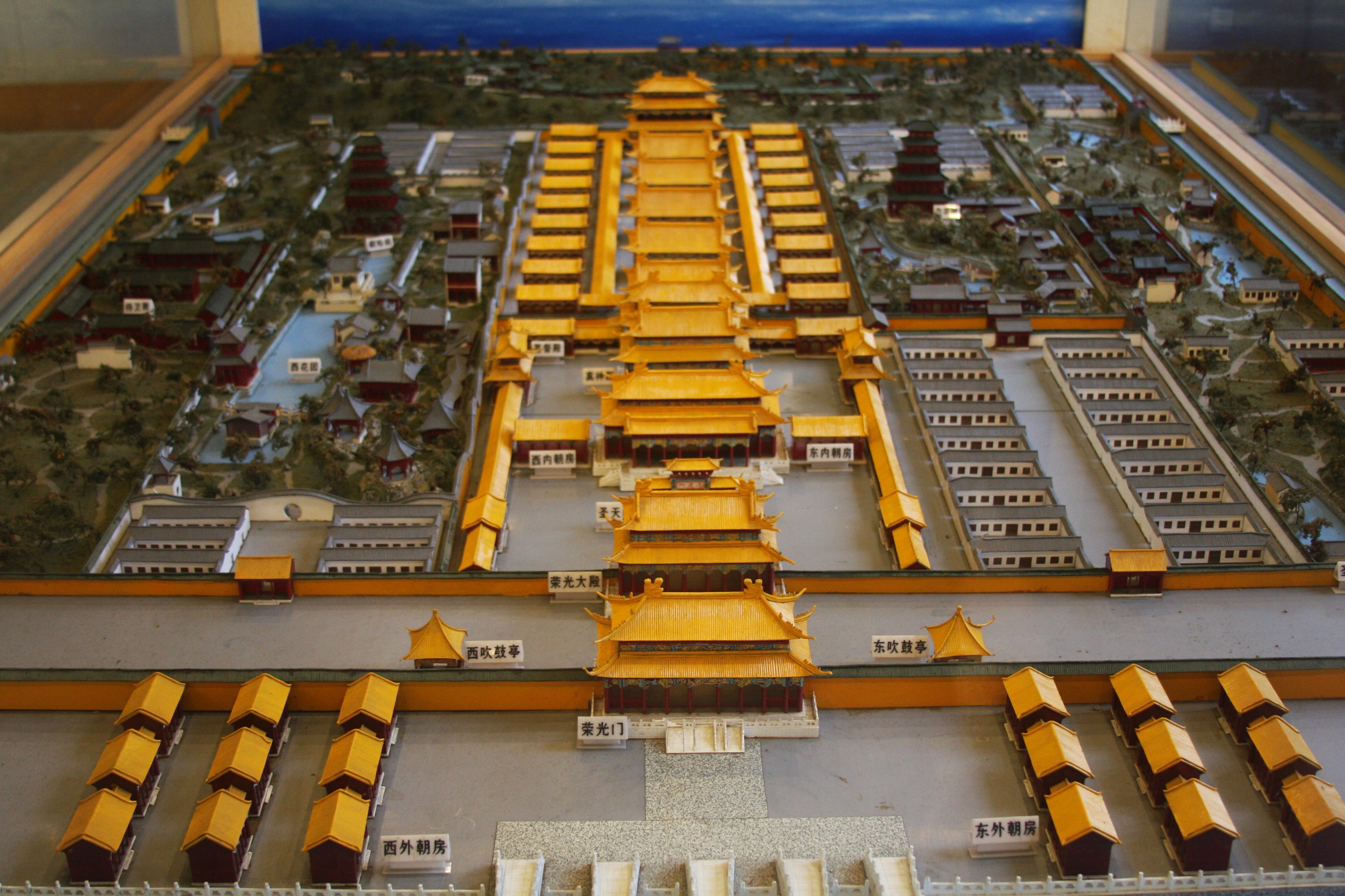 Model of the former Ming Palace—Forbidden City of Nanjing — first palace of the Ming Dynasty, in Nanjing. It was demolished by the Qing Dynasty in 1864.